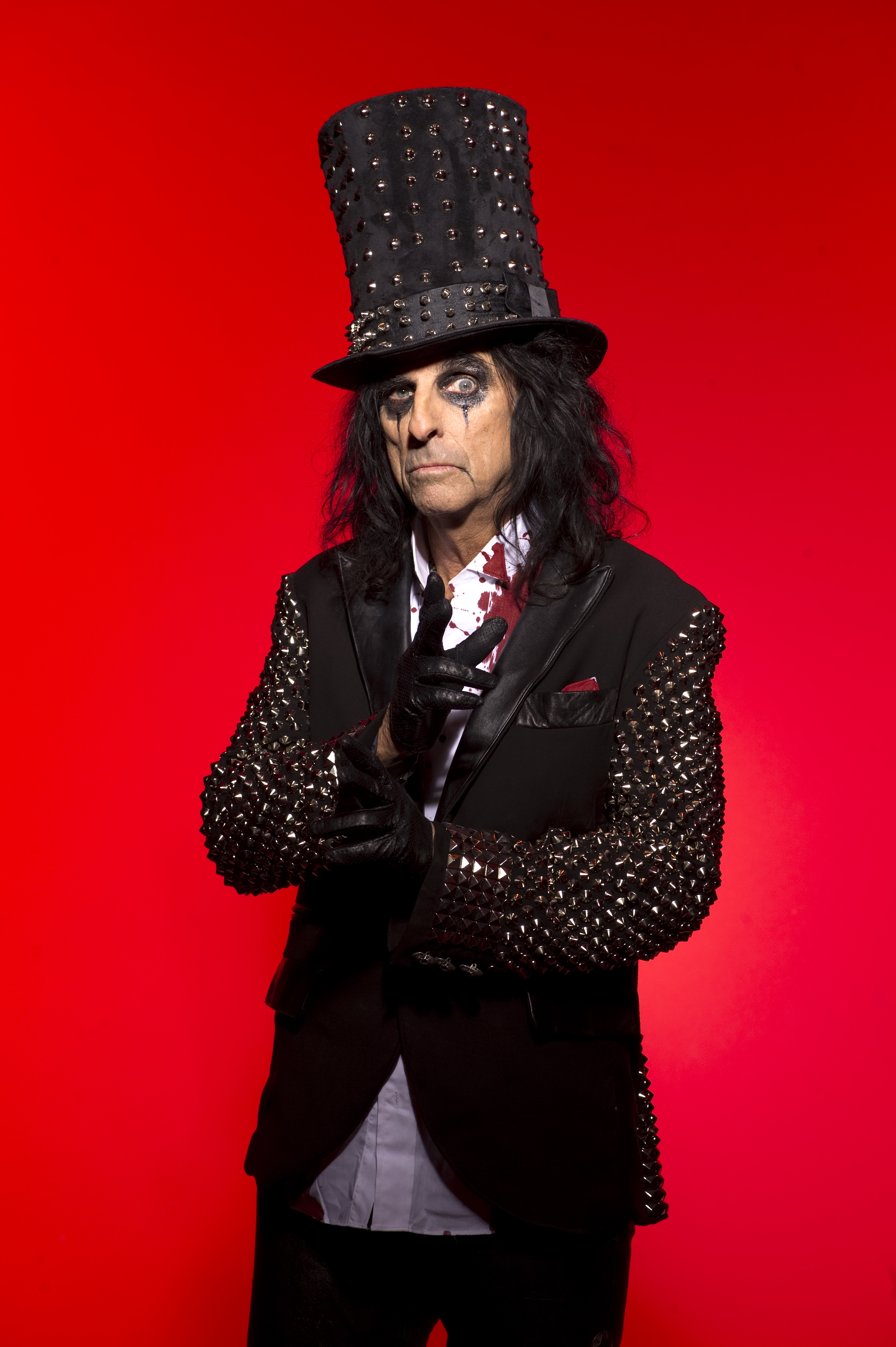 American artist Alice Cooper in 2011